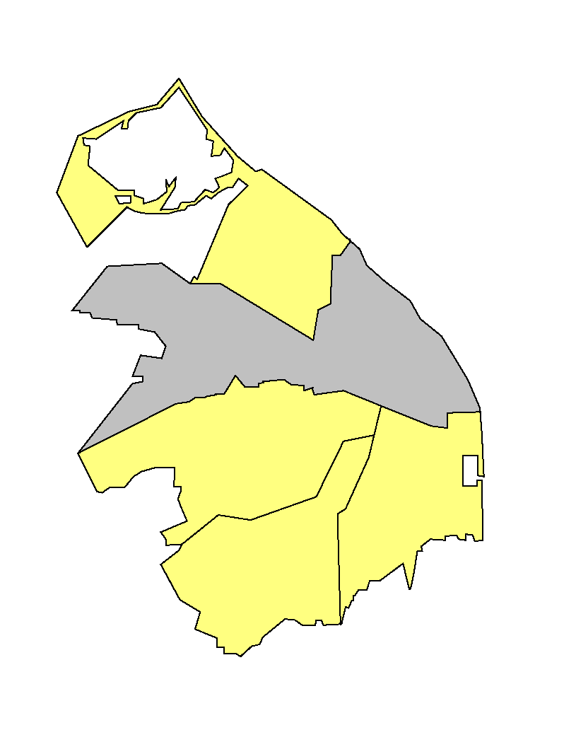 Norte Centro Historico Localidad